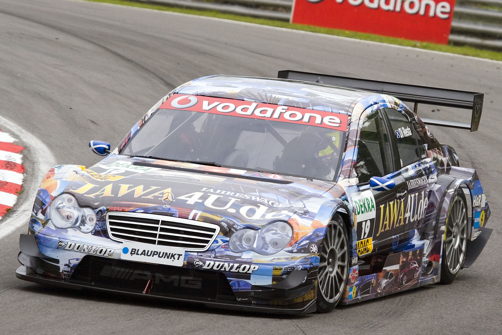 DTM Practice at Brands Hatch 9th June 2007 (Paul di Resta)